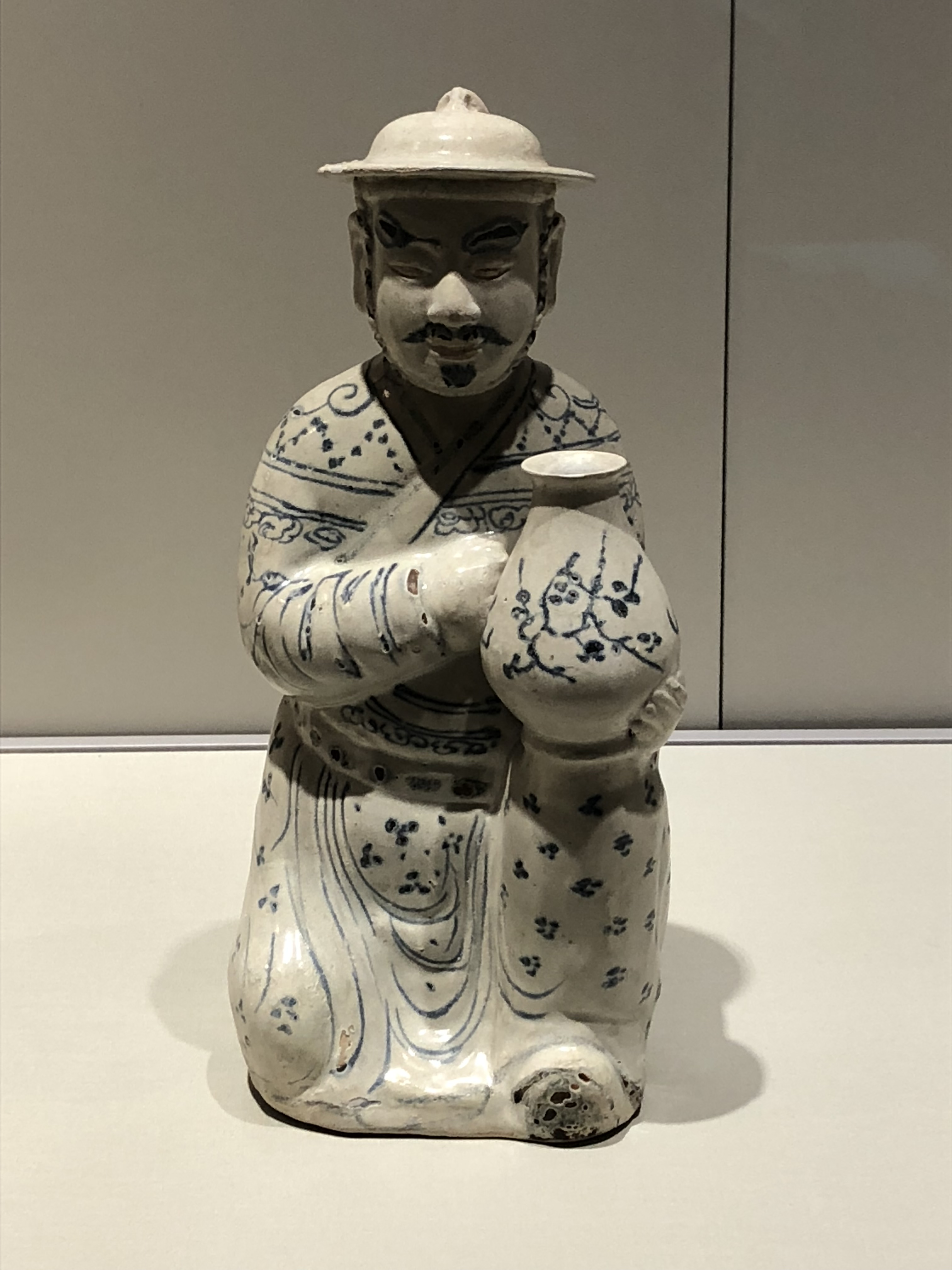 Old art from Vietnam. Exhibit at display in the Asian Civilisations Museum in Singapore.